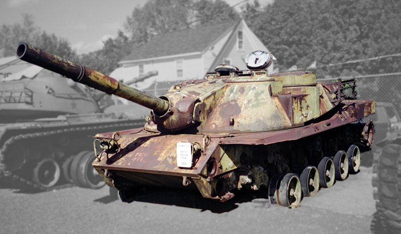 Mild steel prototype of MBT-70 on display at the Military Museum of the Southern New England in Danbury, CT. The picture taken Fall, 2000.